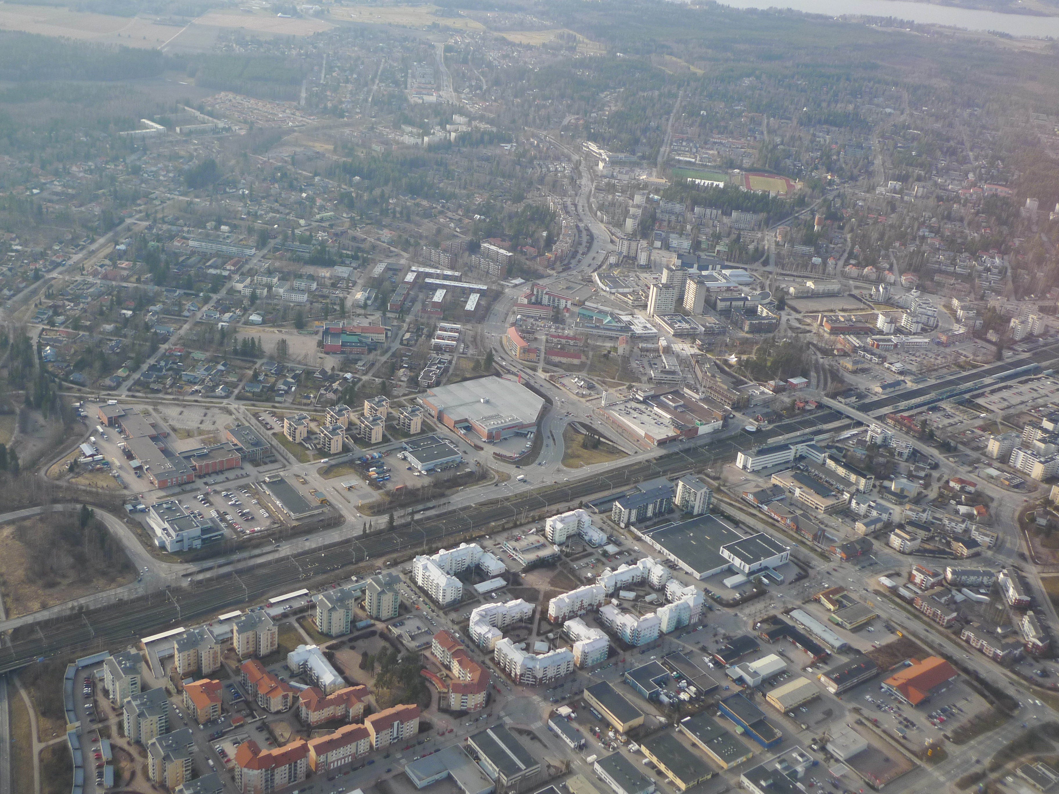 Kerava. Photo taken from airplane window.